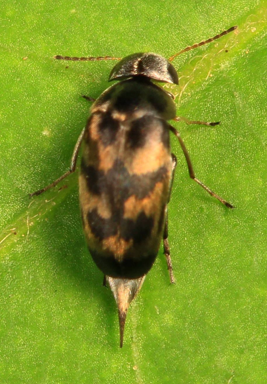 Tumbling Flower Beetle - Paramordellaria triloba, Smithsonian Environmental Research Center, Edgewater, Maryland. 6/6/2015 Anne Arundel County ID by Bugguide